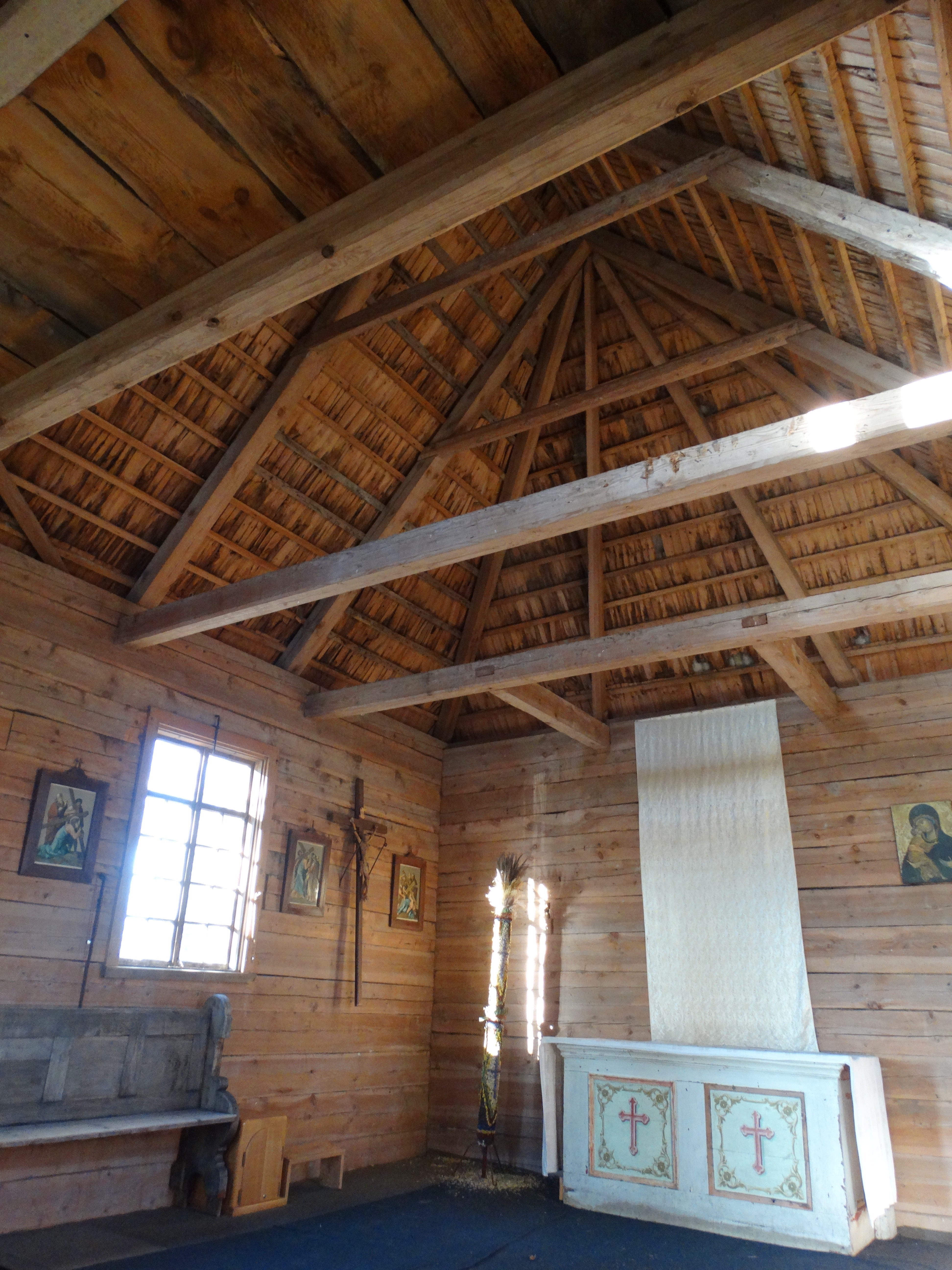 Pakutuvėnai cemetery chapel, Plungė District, Lithuania